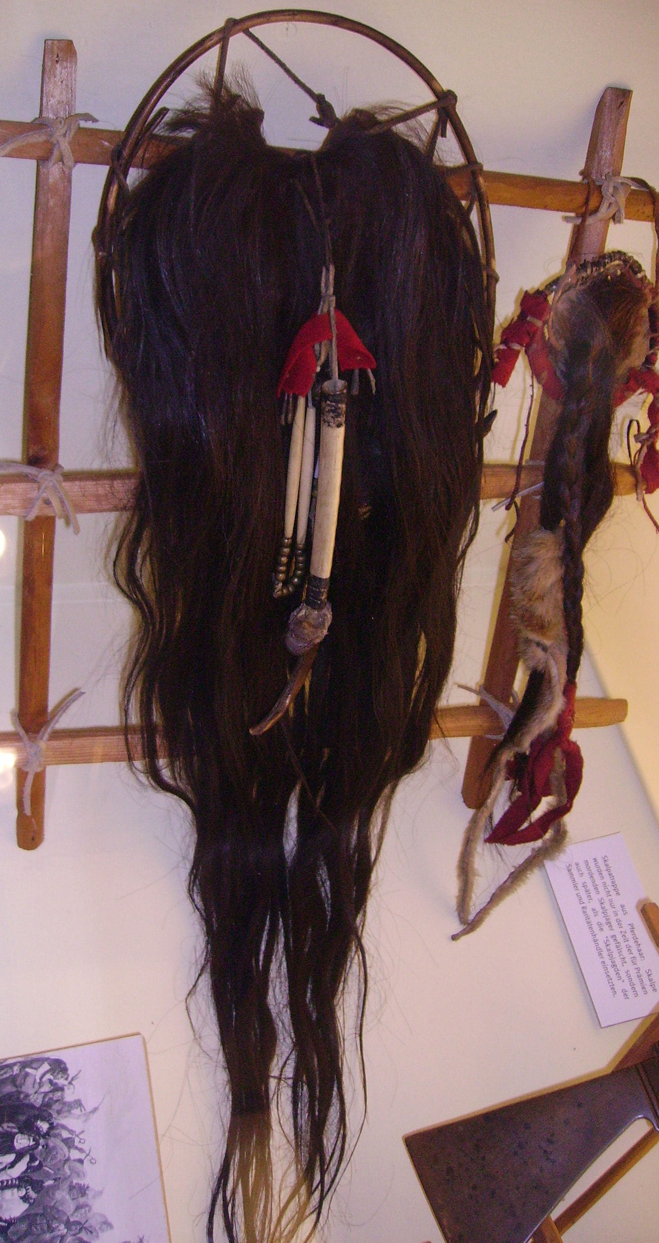 Karl May Museum in Radebeul (Dresden, Germany)